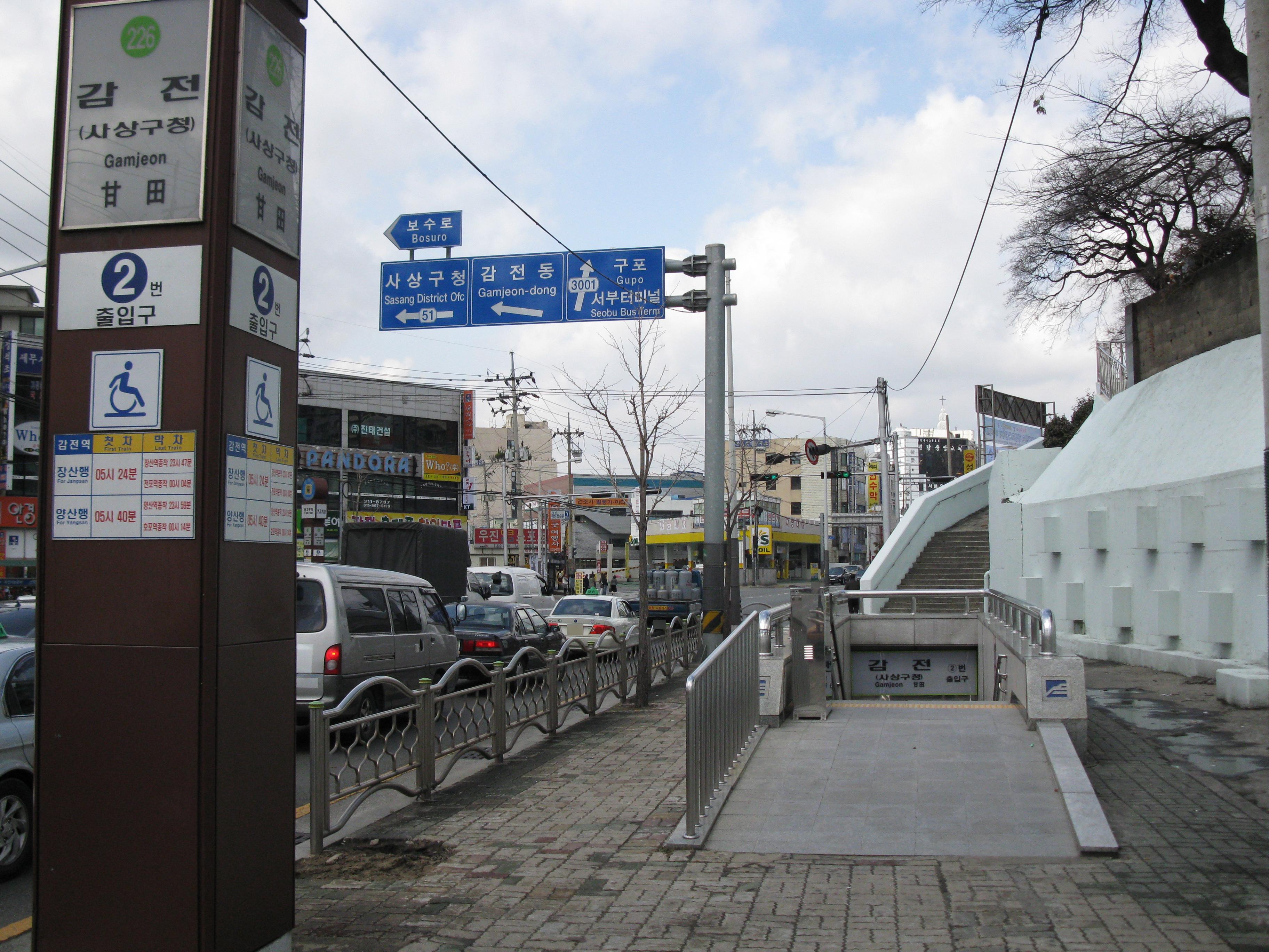 Gamjeon Station no.2 entrance (Busan Subway Line 2)